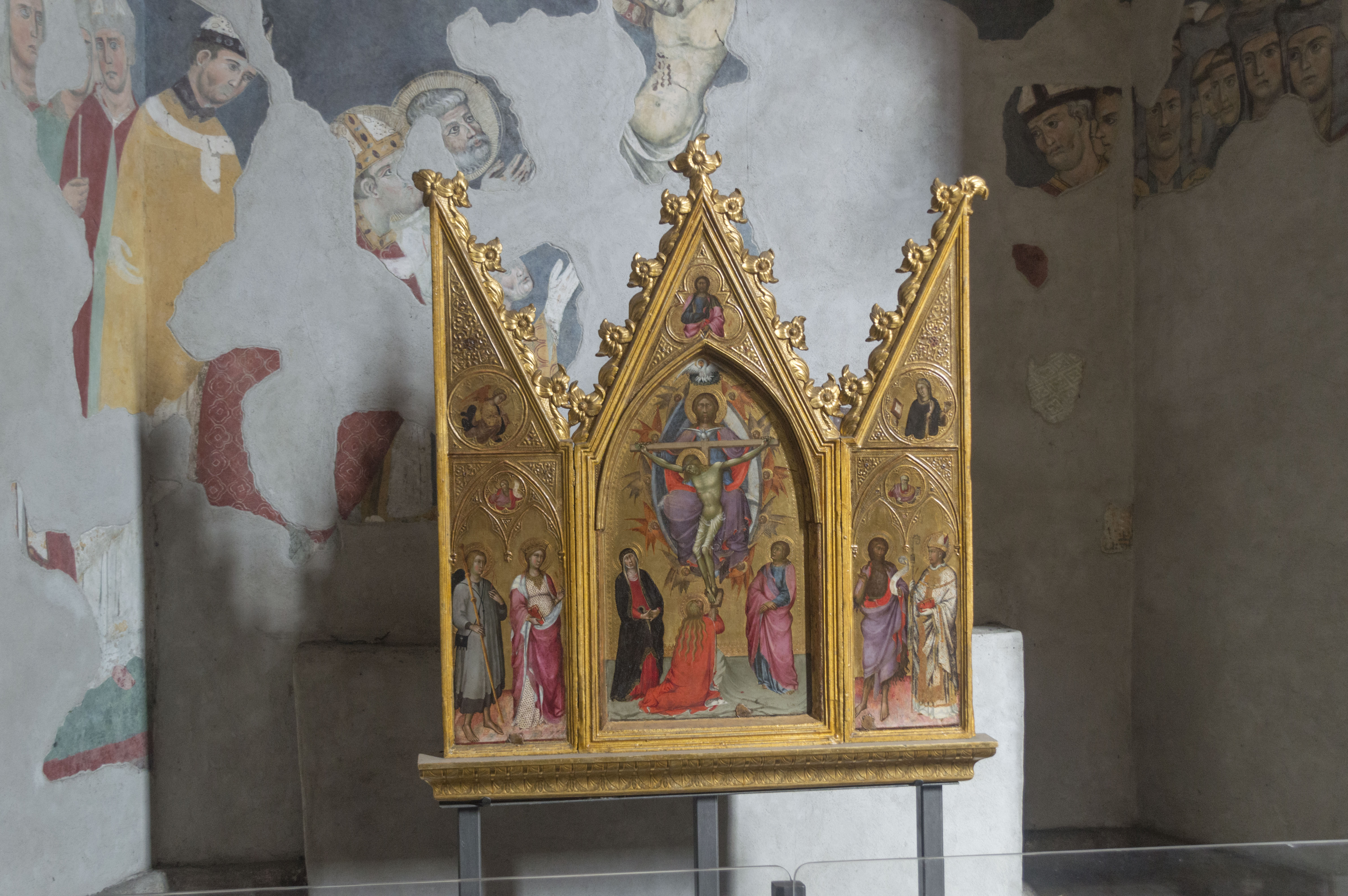 Cappella Capece Minutolo in Naples Cathedral